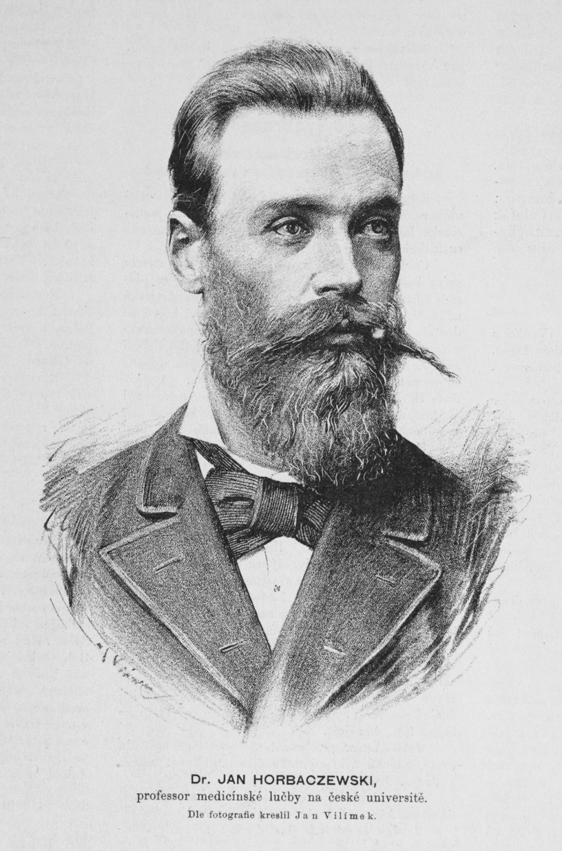 Portrait of Ivan Horbachevsky (1854-1942), captioned as "Jan Horbaczewski", Ukrainian physician, chemist and university professor active mainly in Prague.